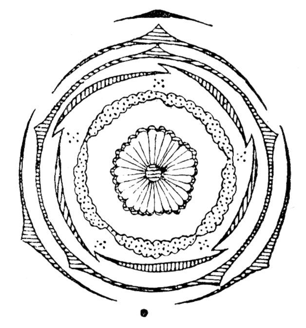 Diagram of a flower of Malva (Malvaceae)